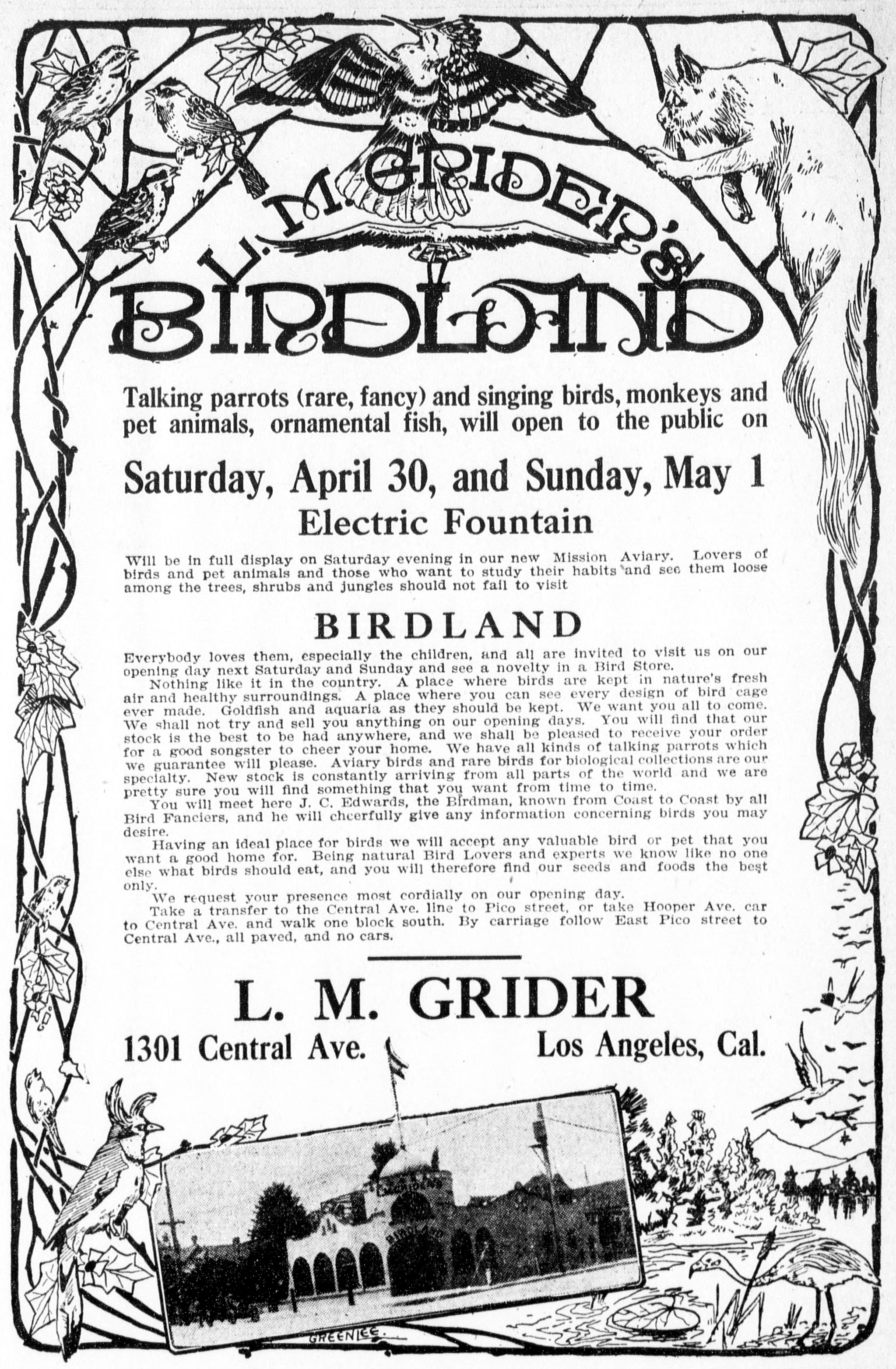 Los Angeles Herald advertisement for Birdland in Los Angeles, California, owned by Leroy Milton Grider, 1910